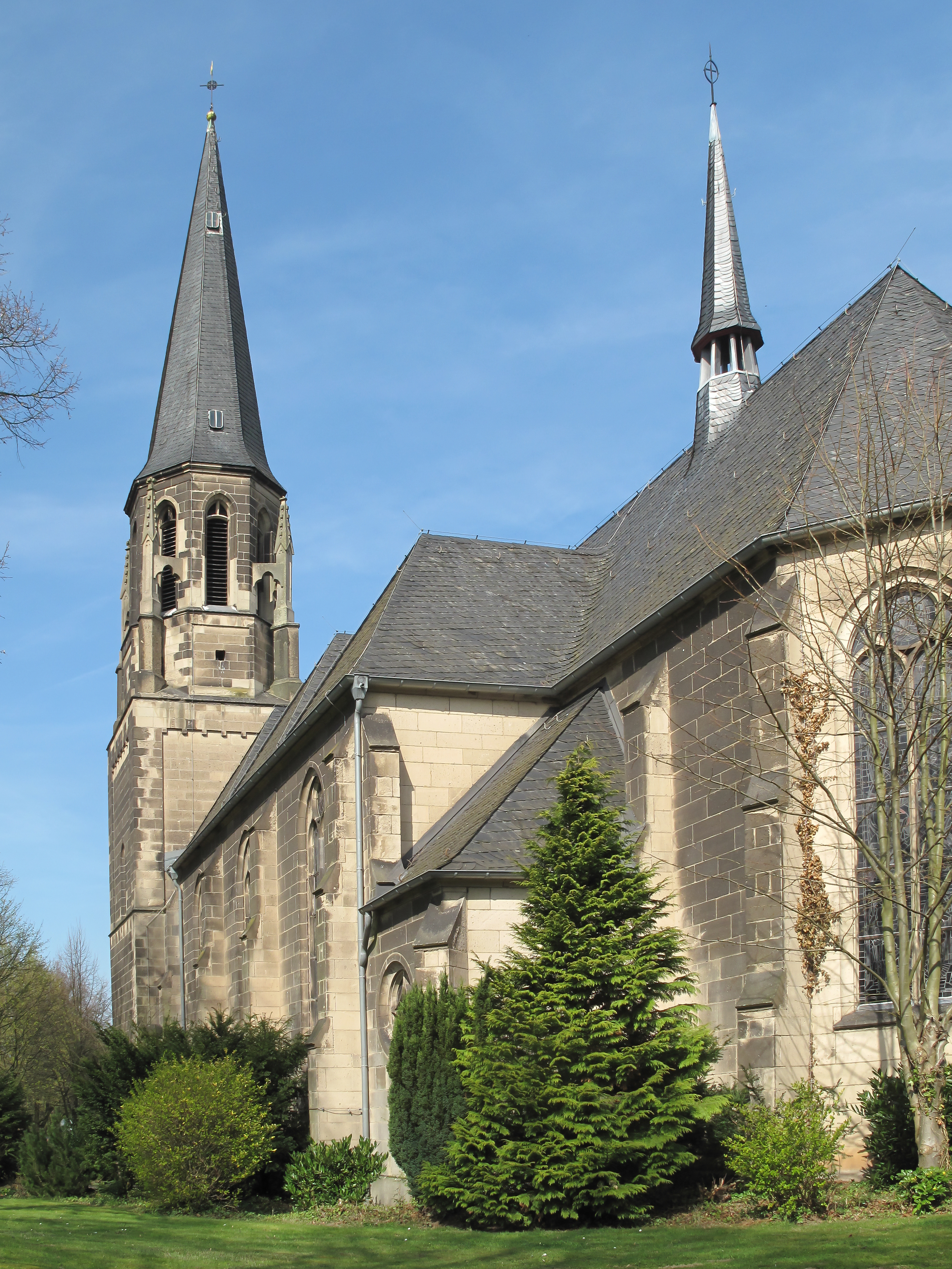 Liedberg, church: die katholische Pfarrkirche Sankt Georg This is a photograph of an architectural monument.